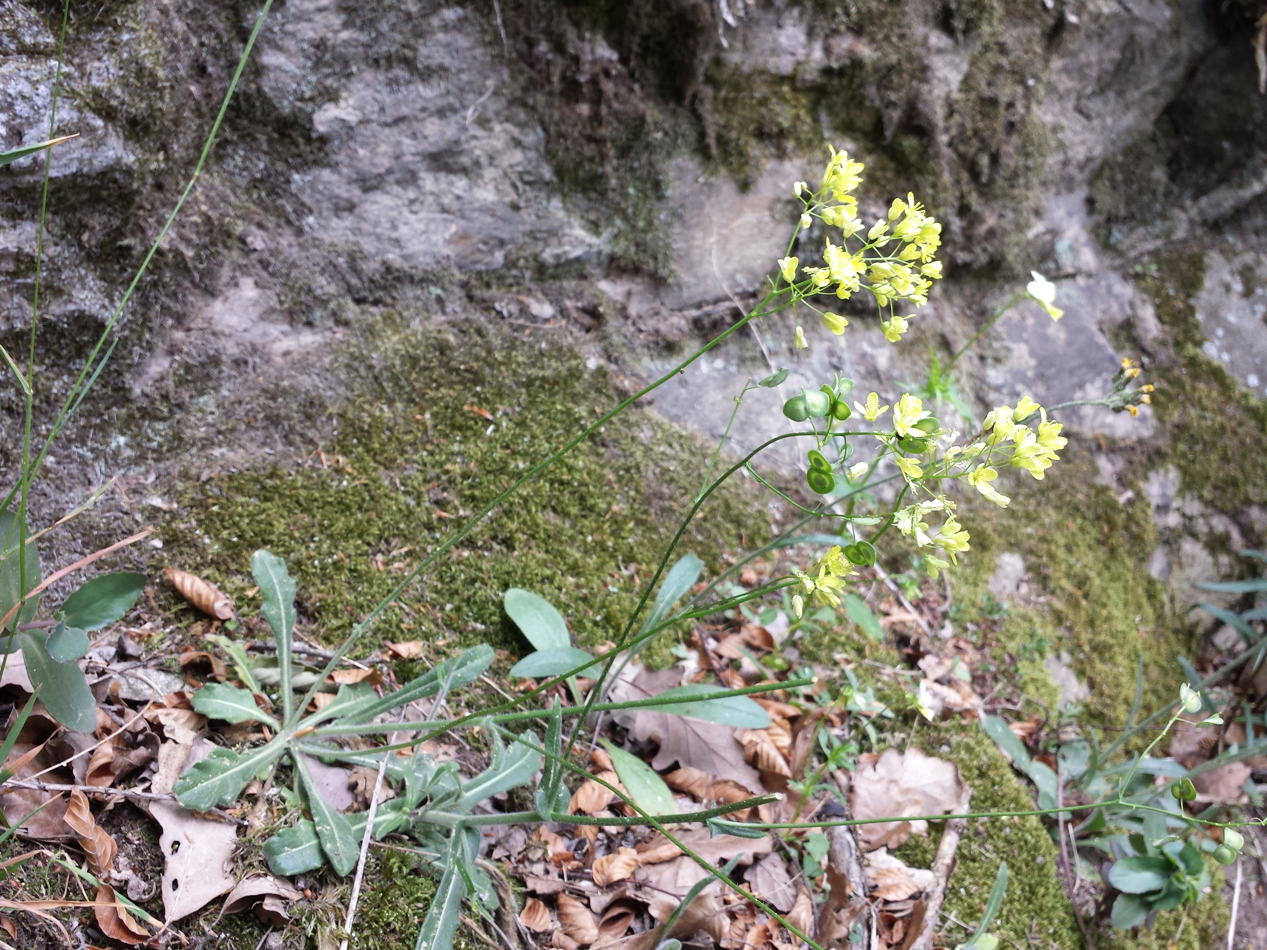 Habitus Taxonym: Biscutella laevigata subsp. kerneri ss Fischer et al. EfÖLS 2008 ISBN 978-3-85474-187-9 Location: Biratalwand Dürnstein, district Krems-Land, Lower Austria - ca. 350 m a.s.l. Habitat: rocky slope